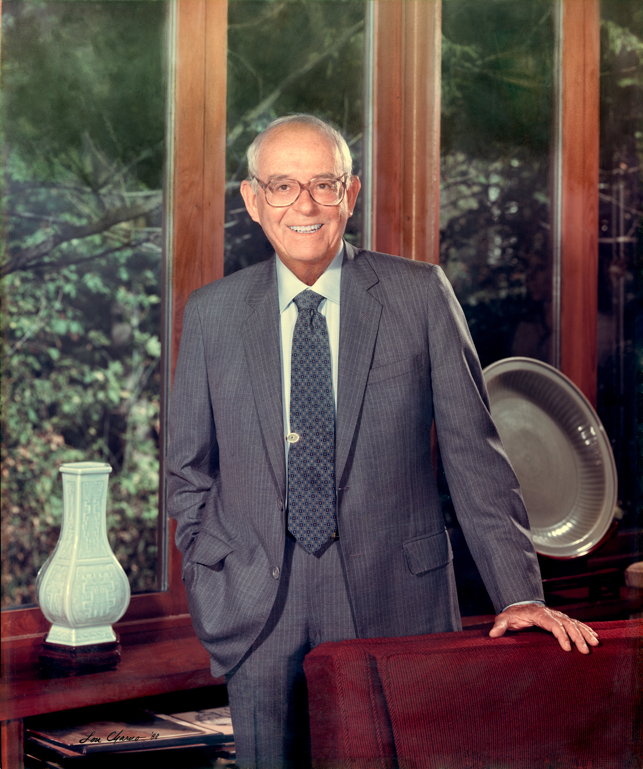 Portrait by Lou Charno of Richard J Stern, Kansas City, MO native